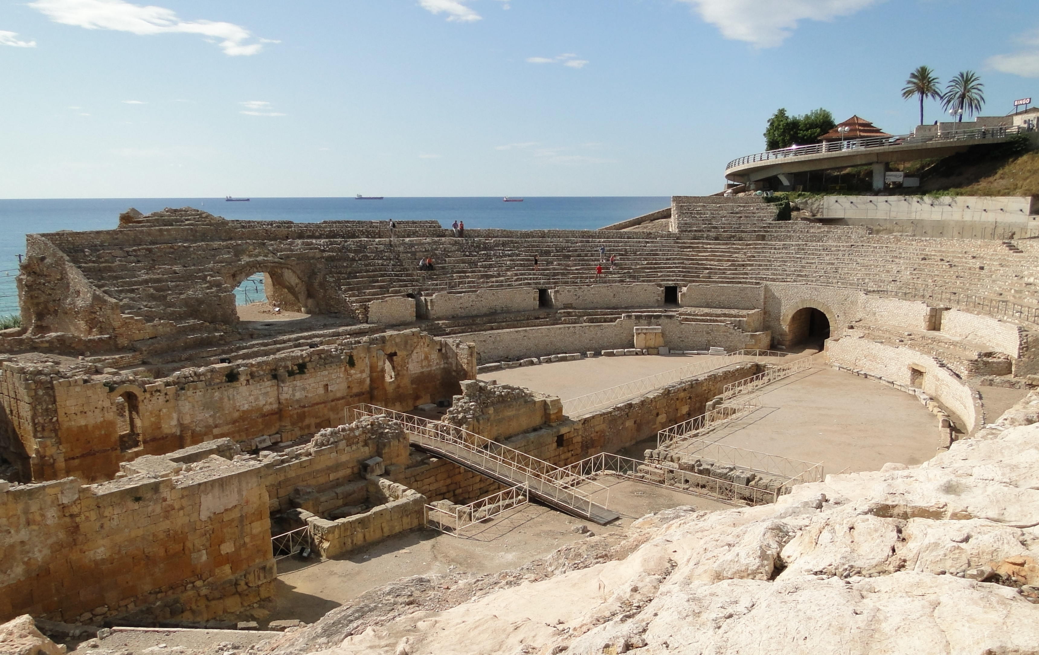 Roman amphitheatre of Tarragona, Catalonia, Spain